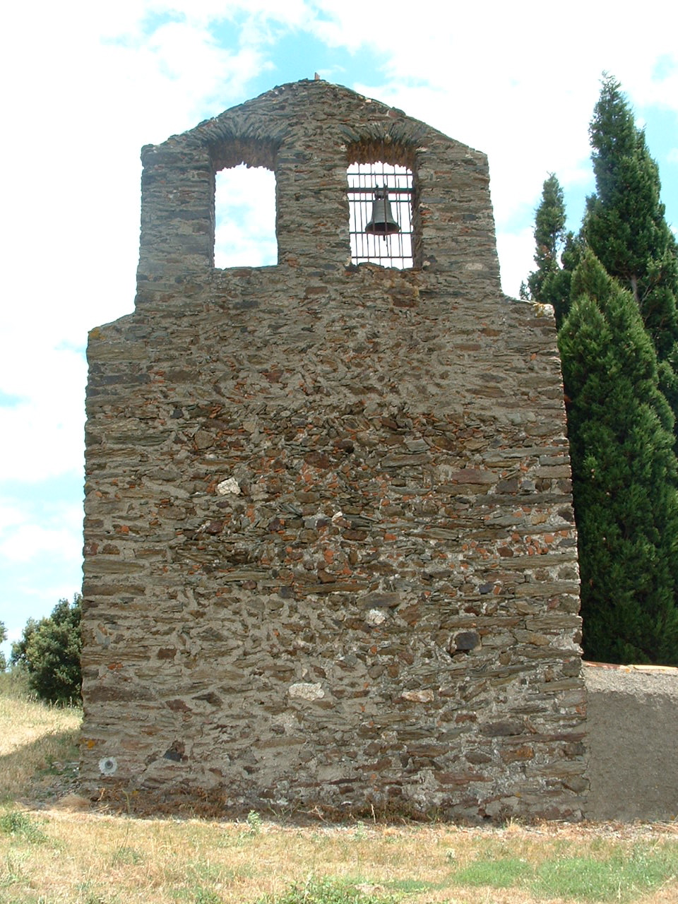 Chapel of Sainte-Marie de Fontcouverte, near Caixas (département of Pyrénées-Orientales, Languedoc-Roussillon région, France)